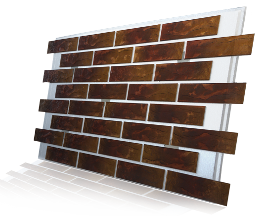 зразокl